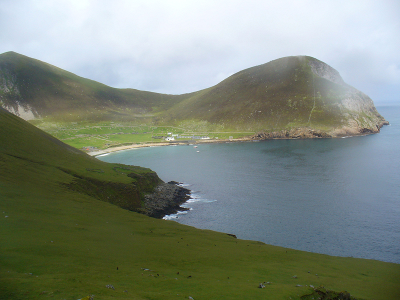 Village Bay, Oiseval (right), Conachair (left) and Loch Hiort from Mistress Stone, St Kilda